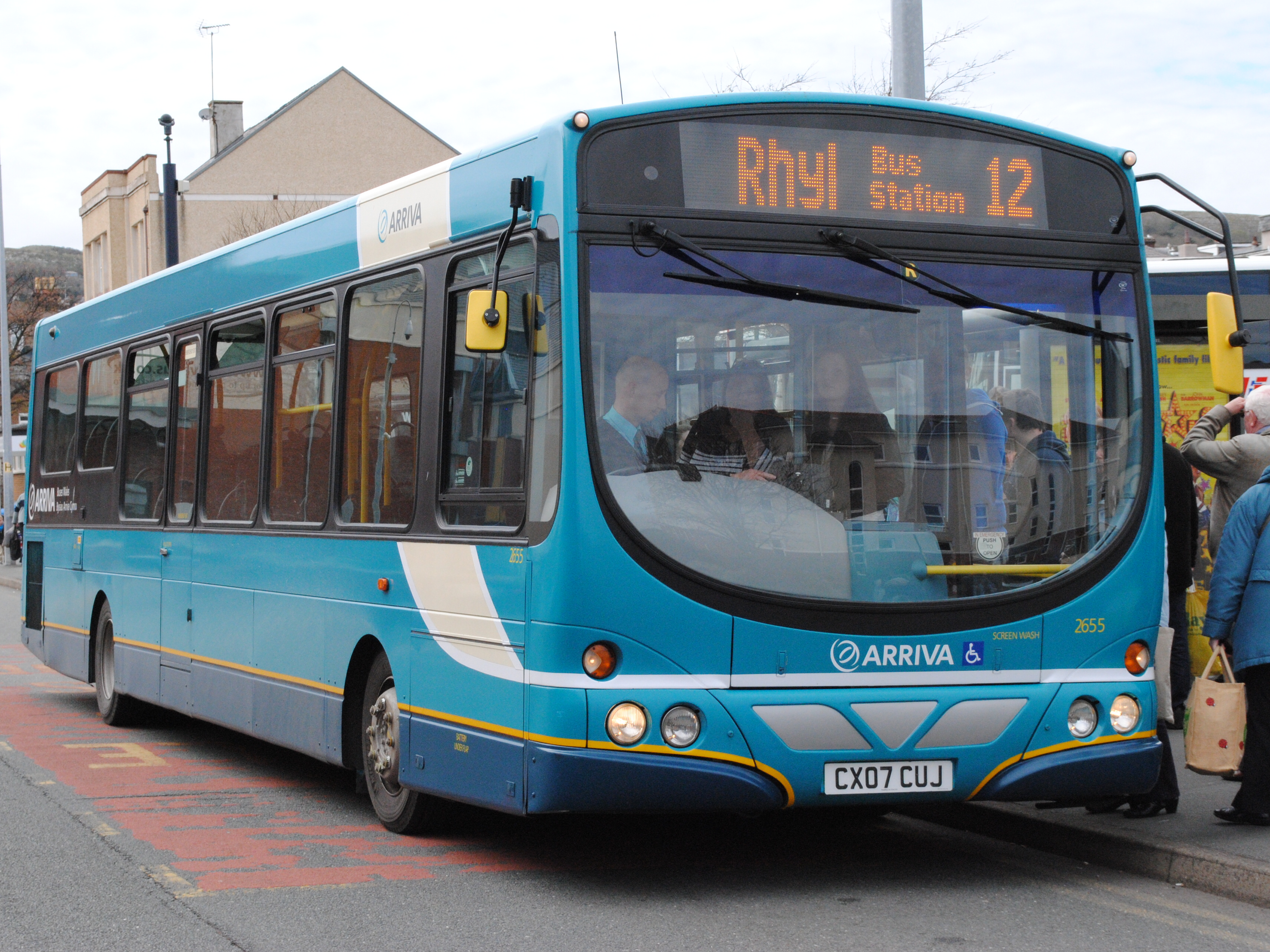 VDL SB200CS Wright Pulsar